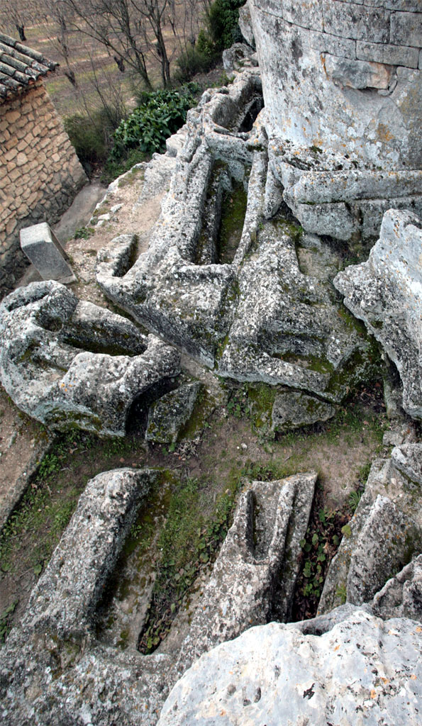 Saint Pantaléon old Church, France